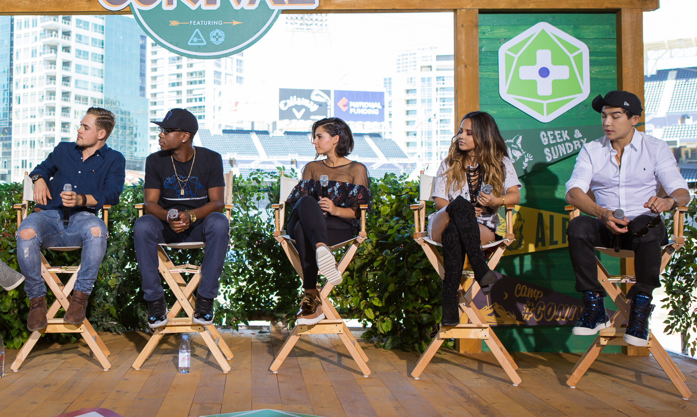 Cast & crew at the Power Rangers discussion Camp Conival offsite at Petco Park during San Diego Comic-Con 2016. From left: Dan Casey (moderator), Dean Israelite, Dacre Montgomery, RJ Cyler, Naomi Scott, Becky G and Ludi Lin